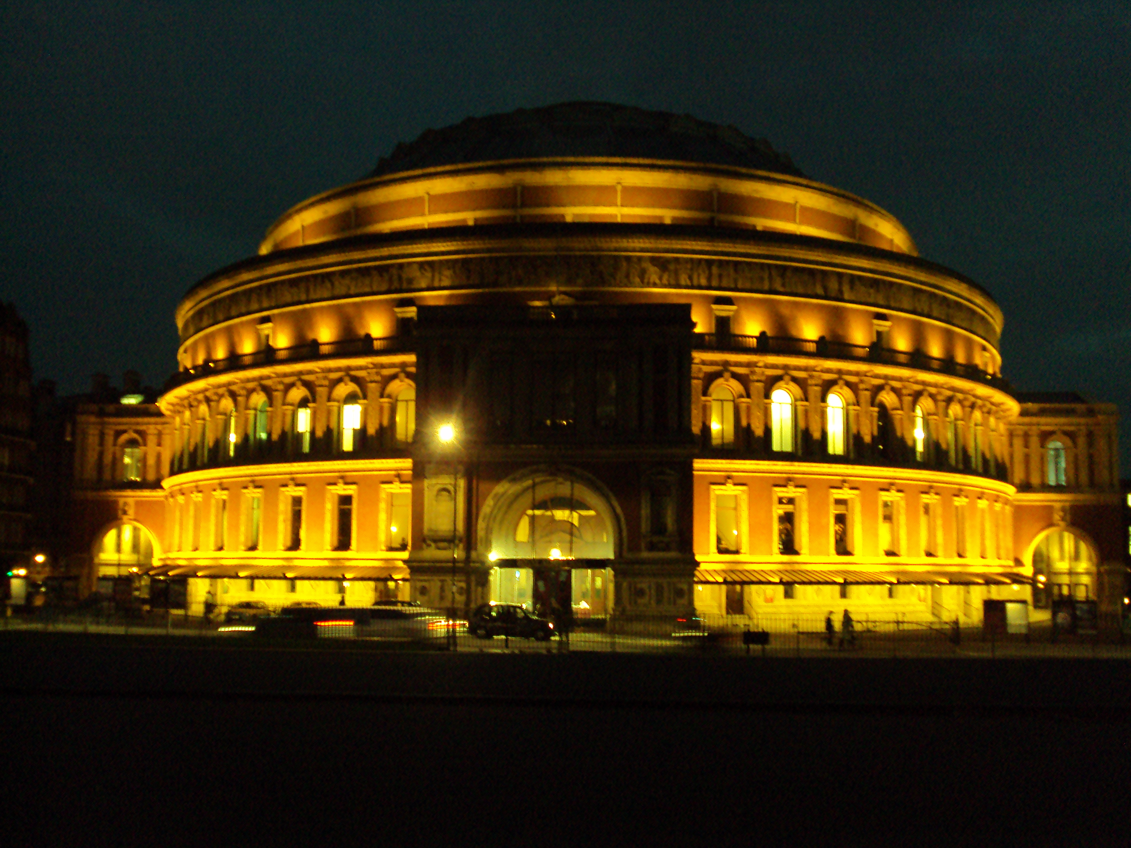 The Royal Albert Hall, London.